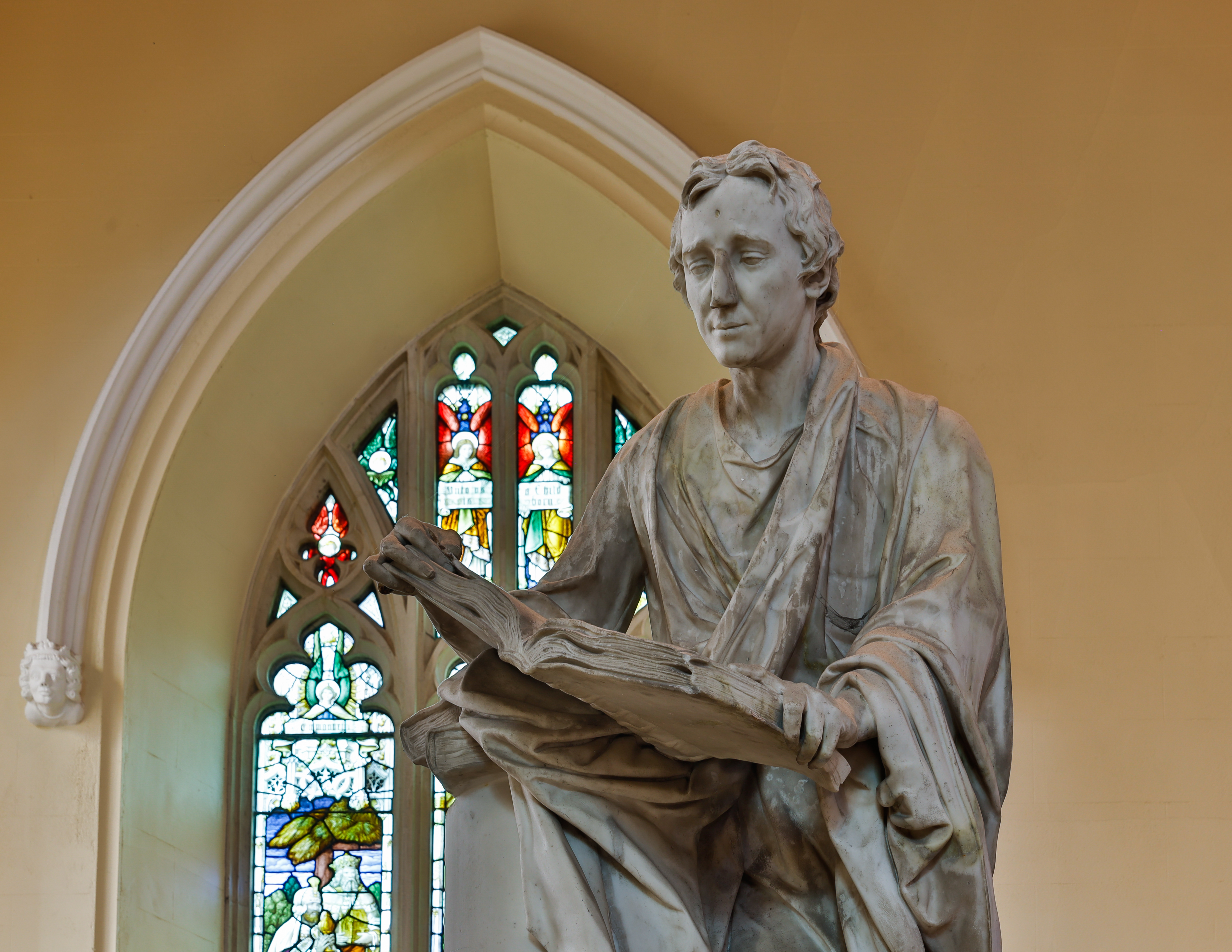 Commanding statue of Sir Thomas Molynex, first State Physician in Ireland. (See Kevin V. Mulligan, The Buildings of Ireland: South Ulster, p. 104.) Wikidata has entry Q2942532 with data related to this item.